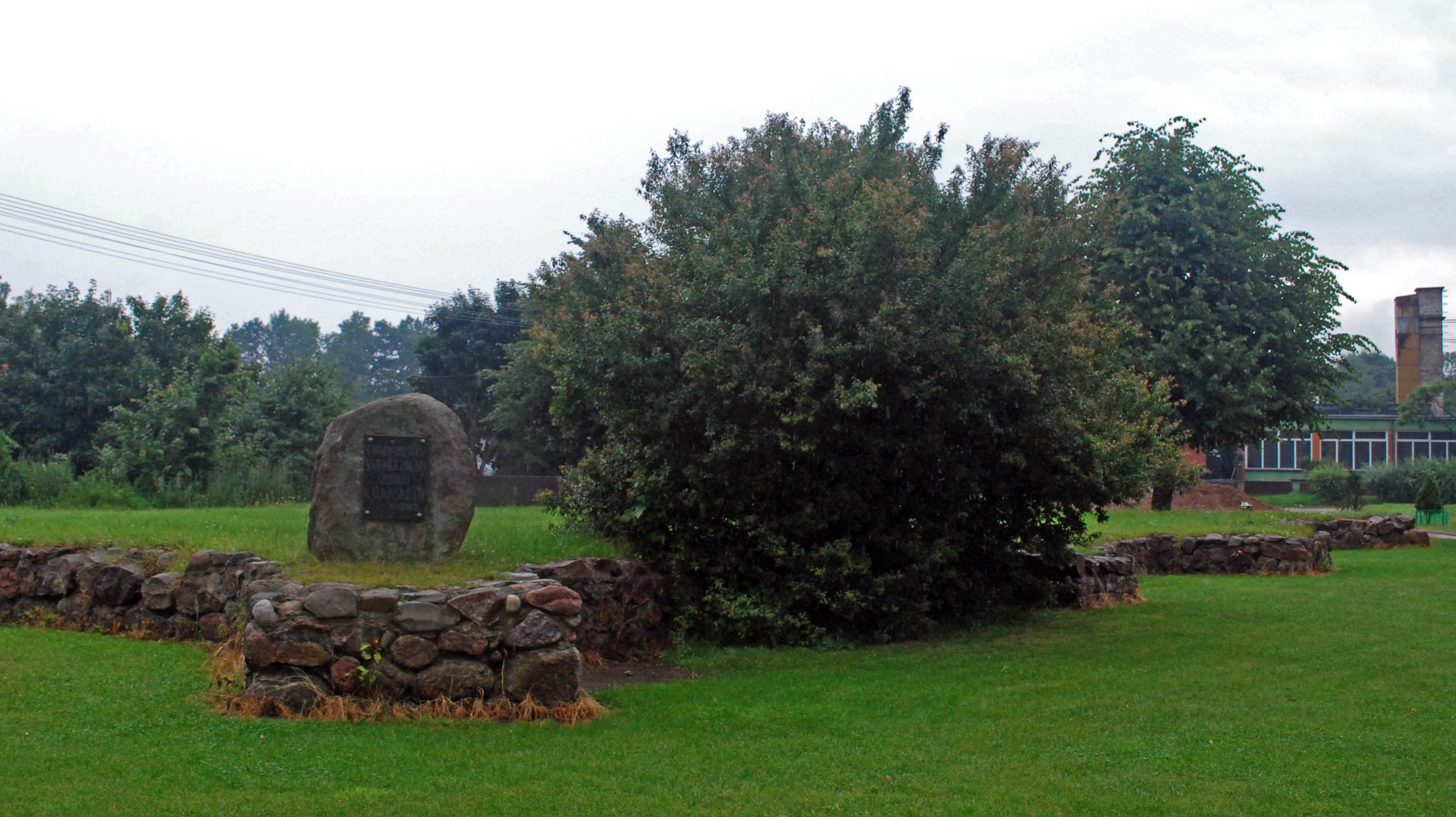 This photo from Podlaskie Voievodeship was taken during Polish Wikiexpedition 2009 set up by Wikimedia Polska Association. The making of this document was supported by Wikimedia Polska. Ruiny Zboru Kawlińskiego w Sidrze.